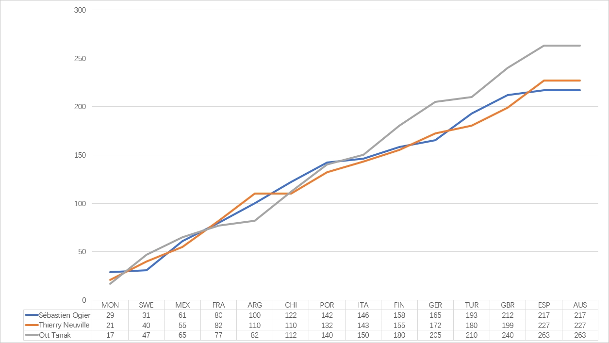 Points progression of the three 2019 WRC title contenders